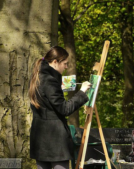 P1170403 Artist..Carshalton 10.04.14..